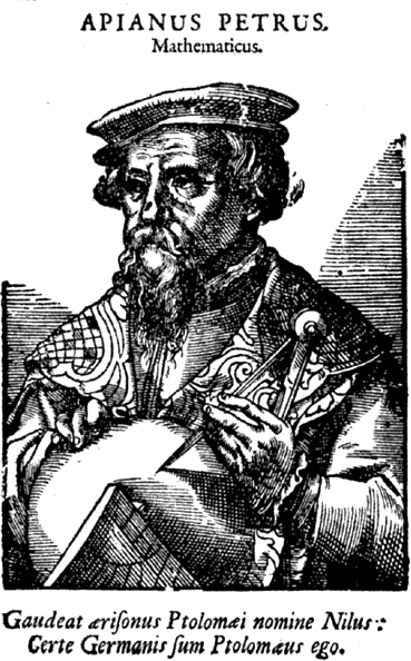 pictire of peter aspian arond 1550